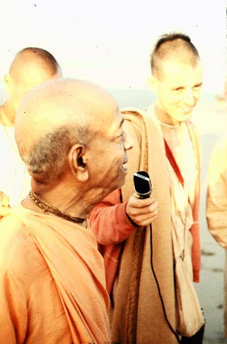 Prabhupada and Satsvarupa dasa Goswami